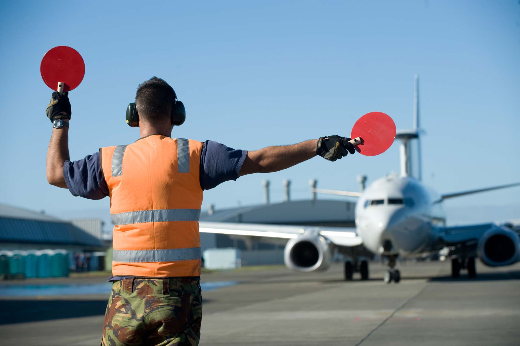 Corporal Matt Roberts of the Ohakea Air Movement Section, Royal New Zealand Air Force. Matt is part of small but highly trained and motivated team of Air Movements operators. The team over a 24 hour period will be marshalling and unloading a string of international aircraft in build up to the 75th Anniversary Air Show at Ohakea Air Force Base. 20110329_OH_H1013410_0015.JPG